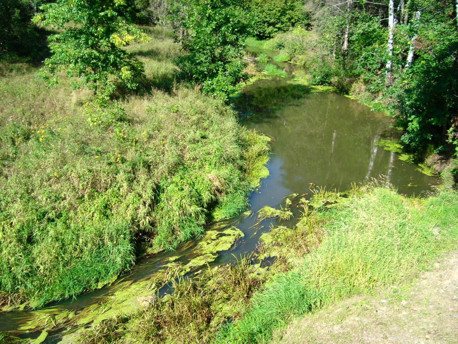 River Vol'ga (not Volga) near Pokrov, Vladimir oblast, Russia